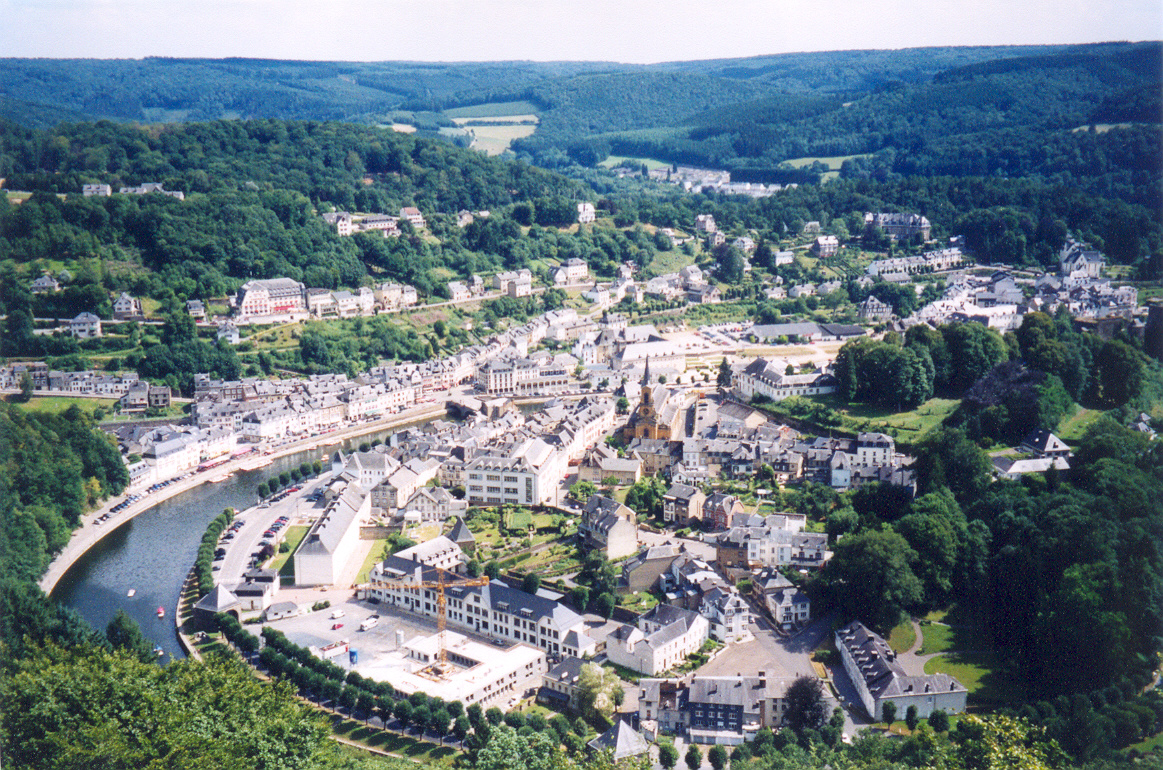 Bouillon, Belgium: view from the belvedere.